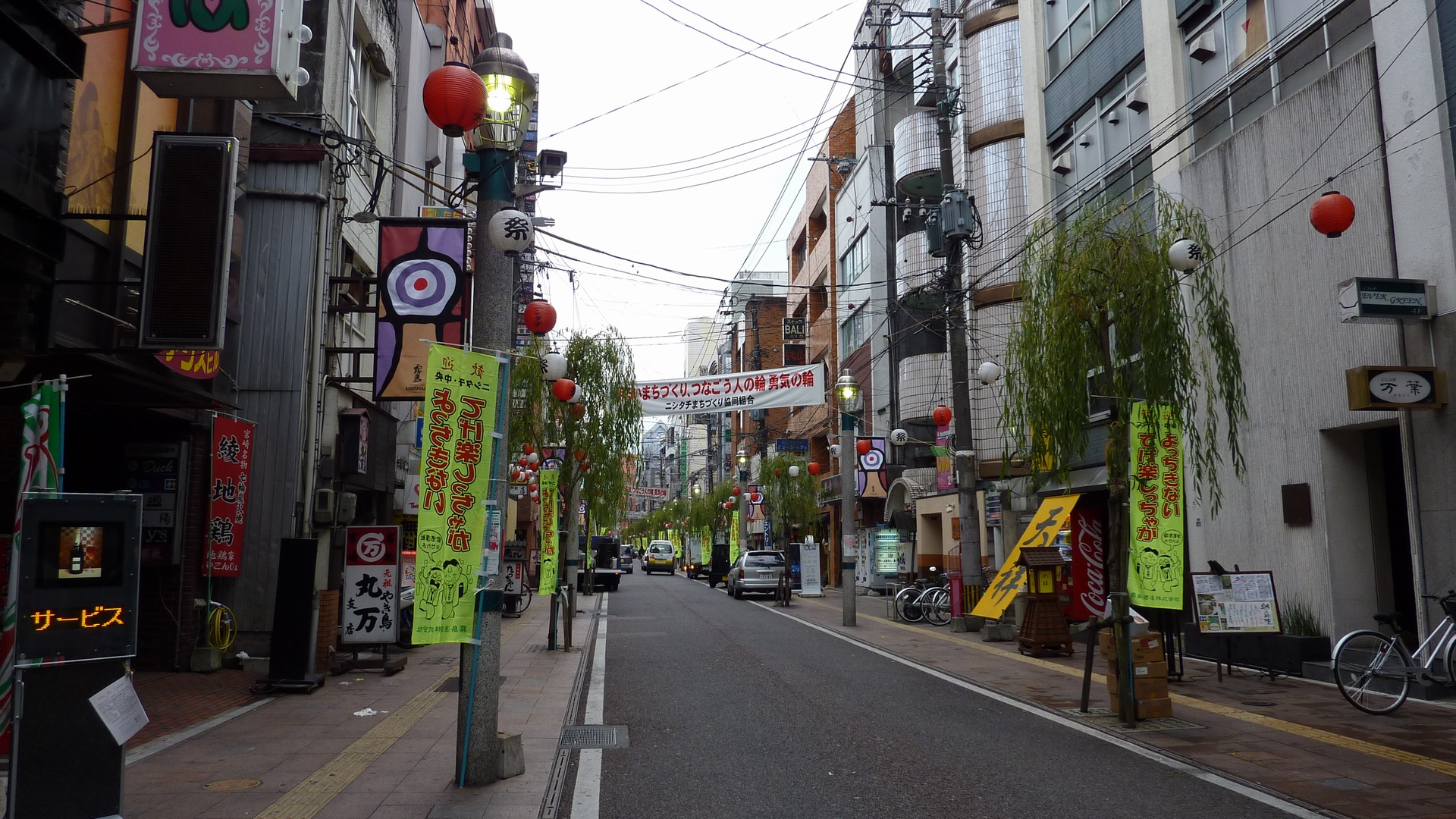 Nishi-Tachibana Street (Central Miyazaki City, Japan)